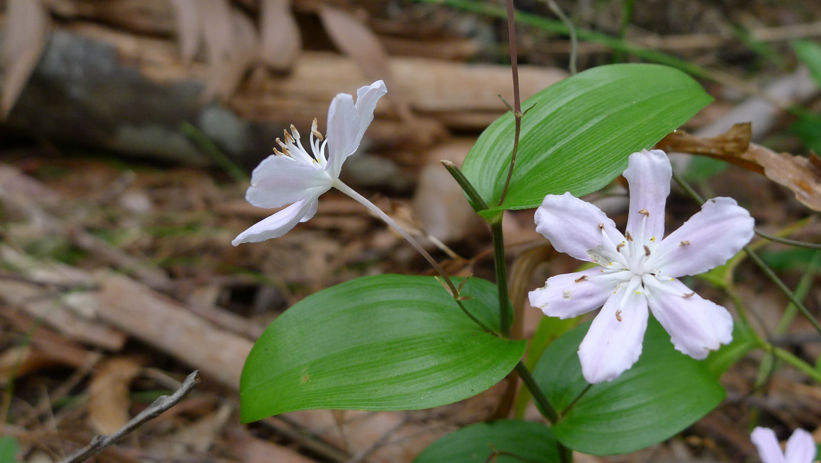 Bush Lily, Tripladenia cunninghamii, flowers and stem-clasping leaves. Koonyum Range, Mullumbimby, NSW, Australia, December 2014.